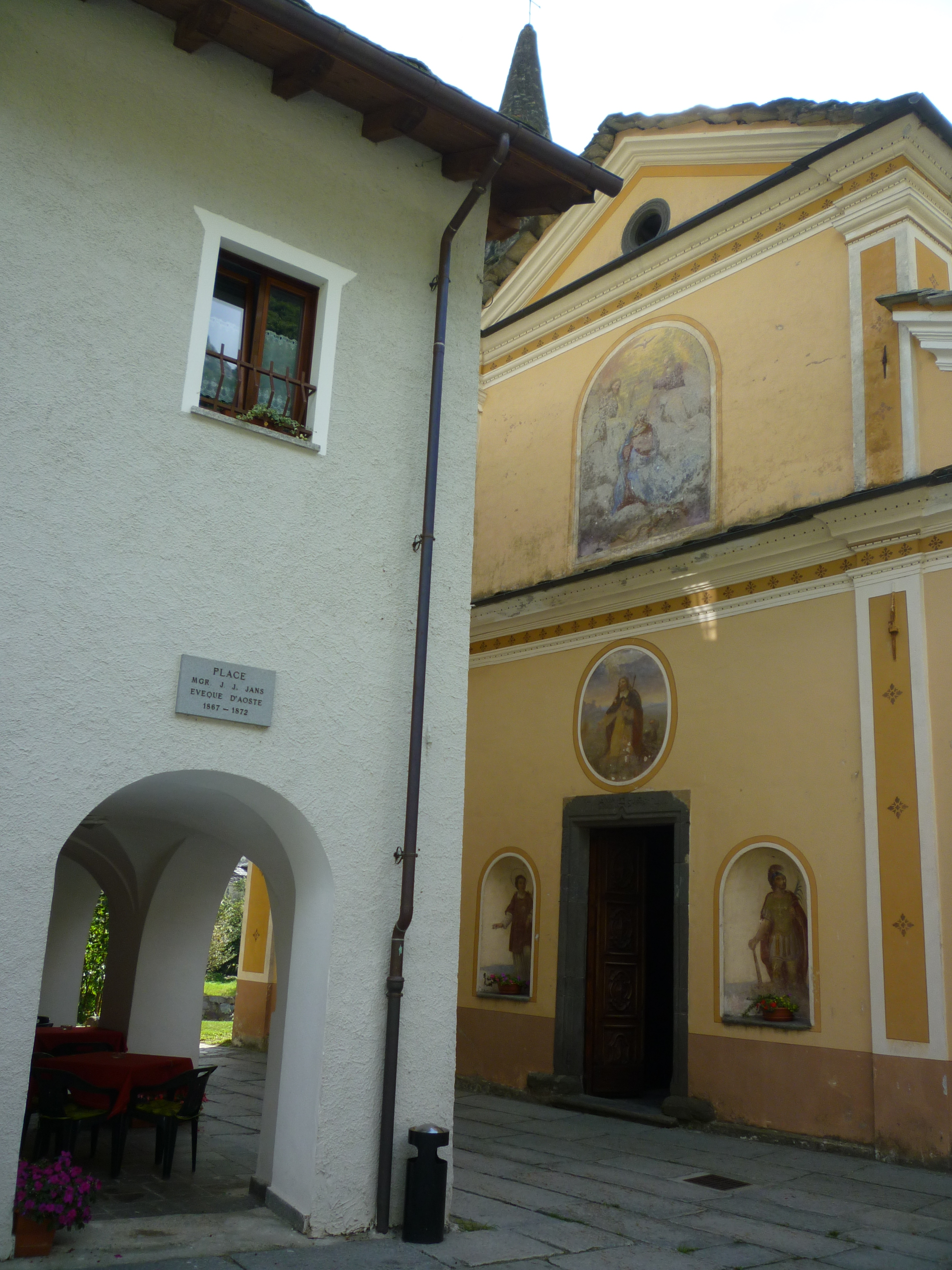 Jacques-Joseph Jans's square in Lillianes (Aosta Valley, Italy)